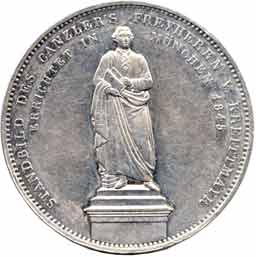 Bavarian coin: 2 Thaler of 1845 (reverse) with the monument of Wiguläus von Kreittmayr (1705-1790), chancelor of Bavaria